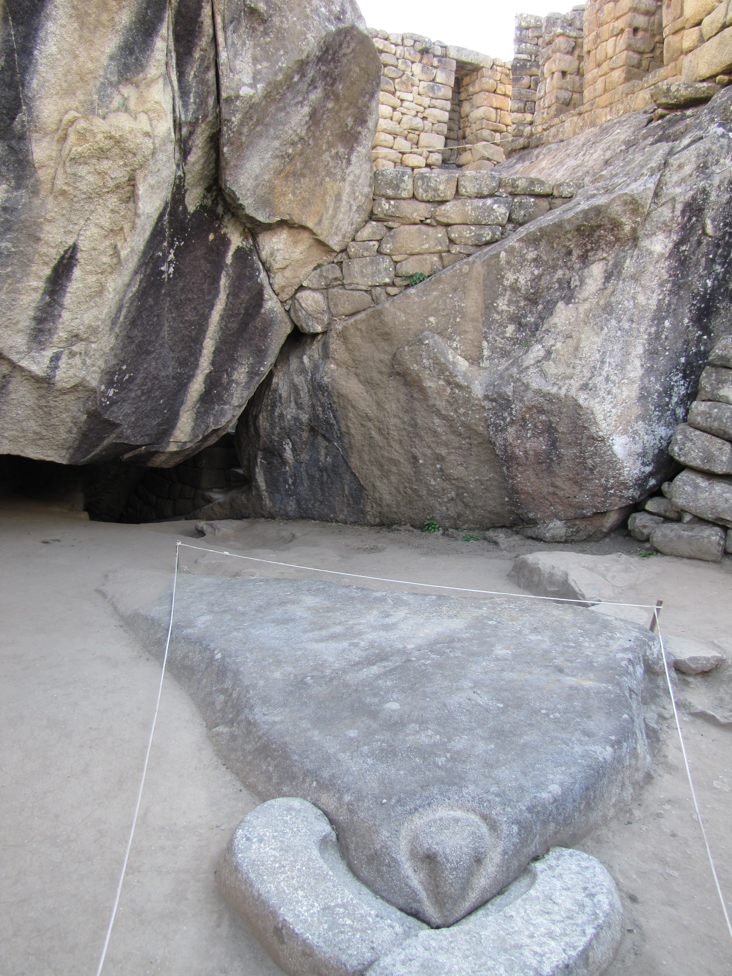 Temple of the Condor in Machu Picchu, Peru